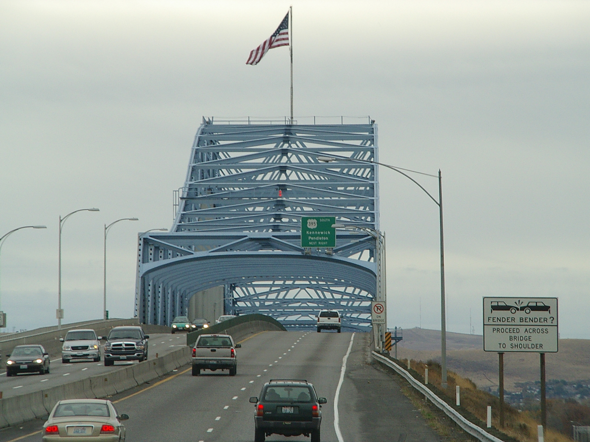 Telephoto roadway view of the Blue Bridge, which carries U.S. Route 395 over the Columbia River, from the north – leaving Pasco, Washington, and heading for Kennewick.